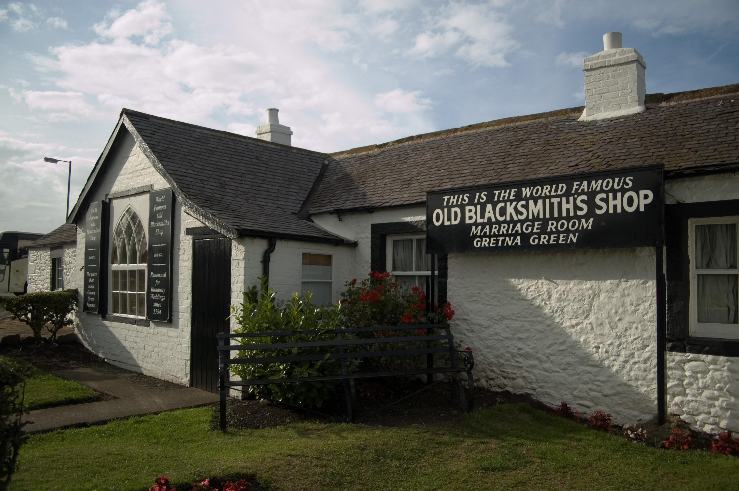 The old blacksmith's shop at Gretna Green. Gretna Green.